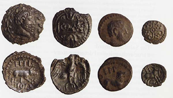 Some examples of the Wanborough coins, votive offerings from an Iron Age temple at Wanborough in Surrey, discovered in 1983, but looted and partially destroyed by treasure hunters.